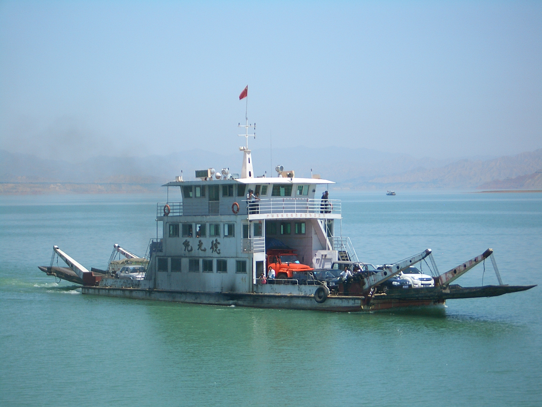 A vehicle ferry crossing the Liujiaxia Reservoir from Yongjing County to Lianhua Tai (Linxia County)